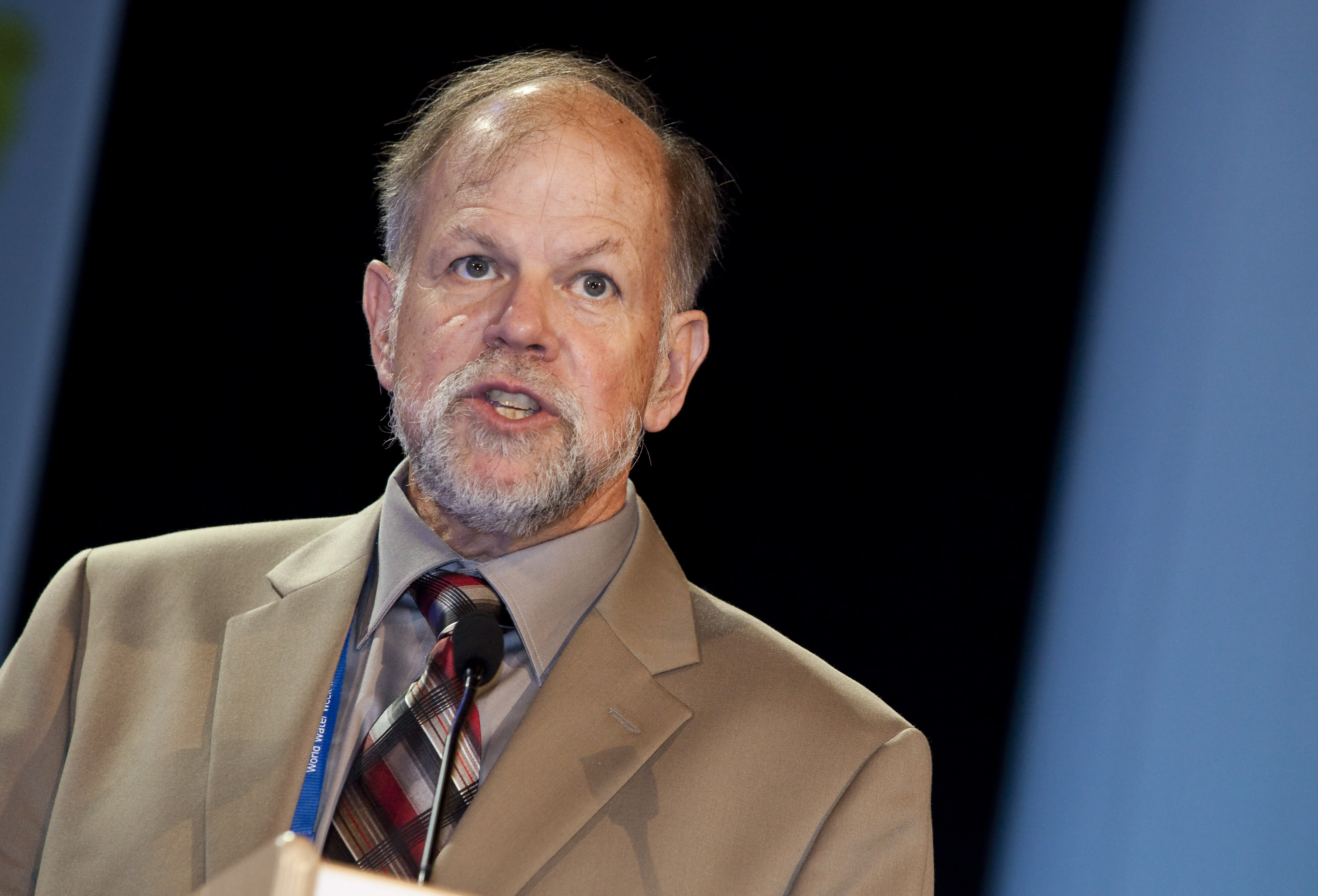 2011 World Water Week Opening Plenary Monday 10:00-12:00, 2011-08-21, Prof. Stephen R. Carpenter, 2011 Stockholm Water Prize laureate.